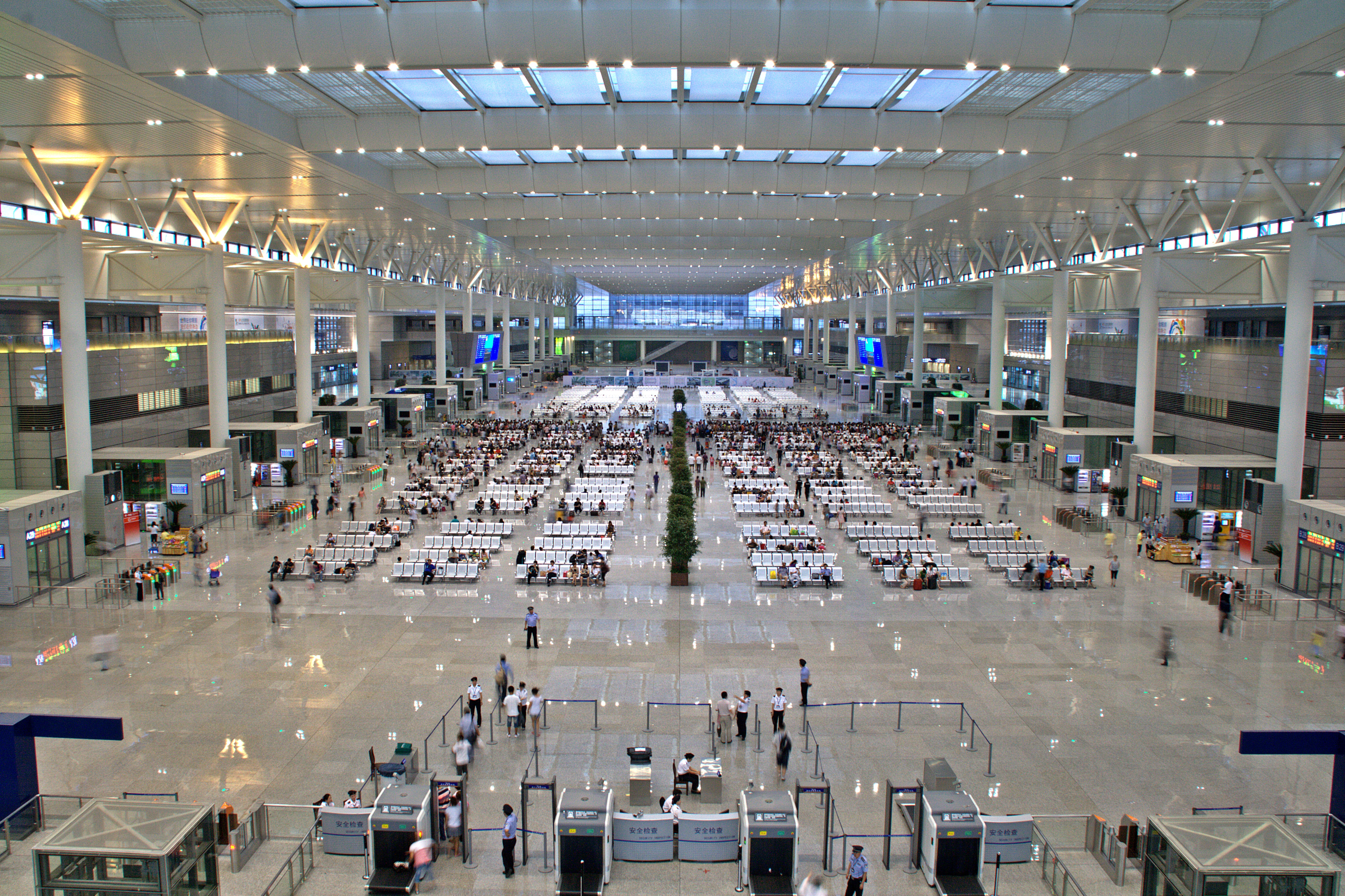 Waiting hall of the Shanghai Hongqiao Railway Station